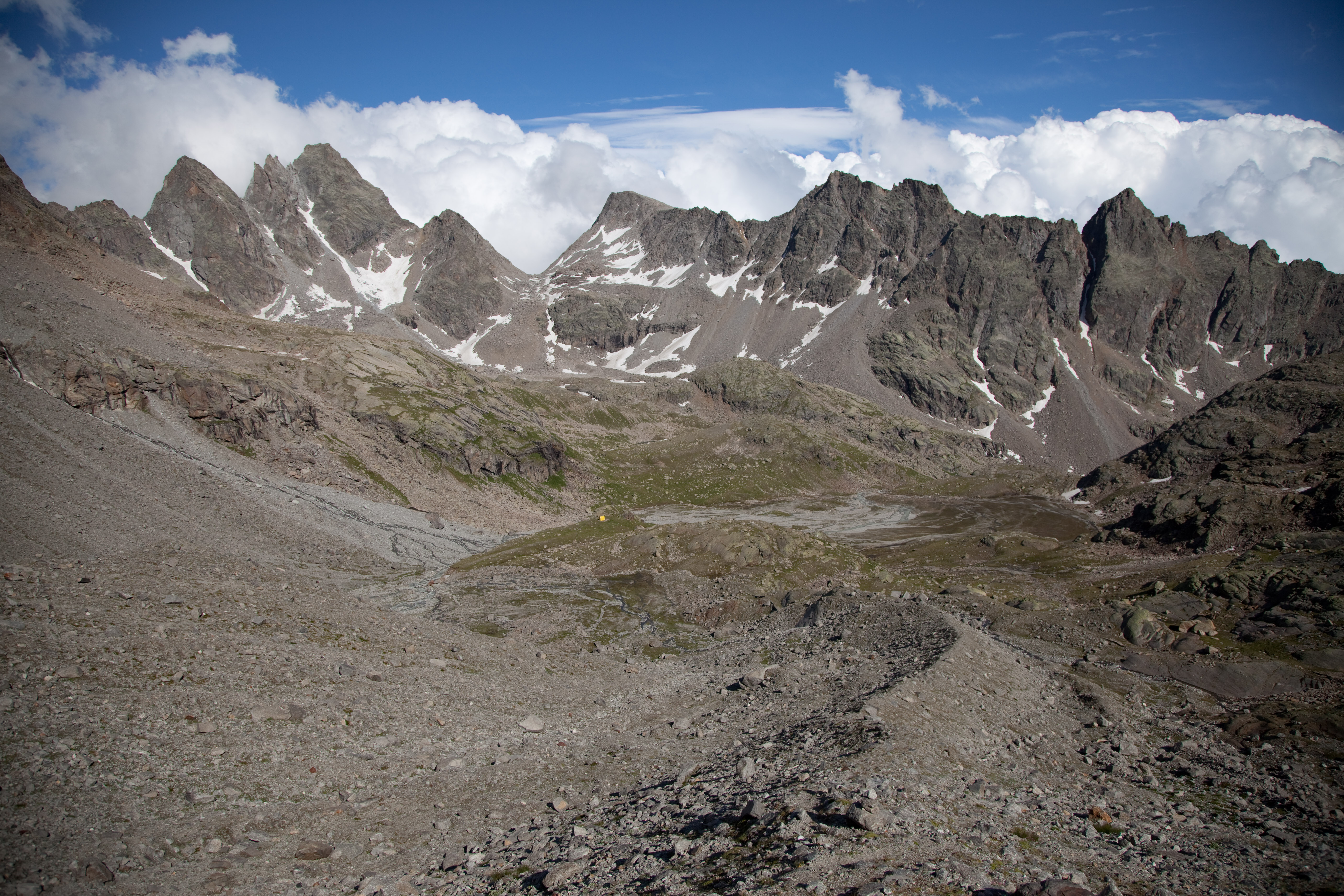 The Bivacco Ivrea is a bivouac shelter in the Gran Paradiso National Park in Northern Italy. The shelter is located at the center of the picture. Reference